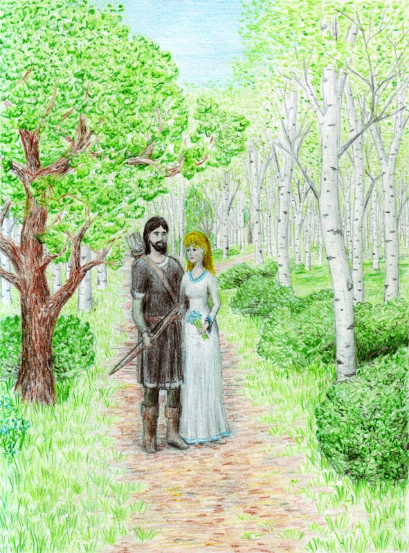 Túrin and Nienor in Brethil